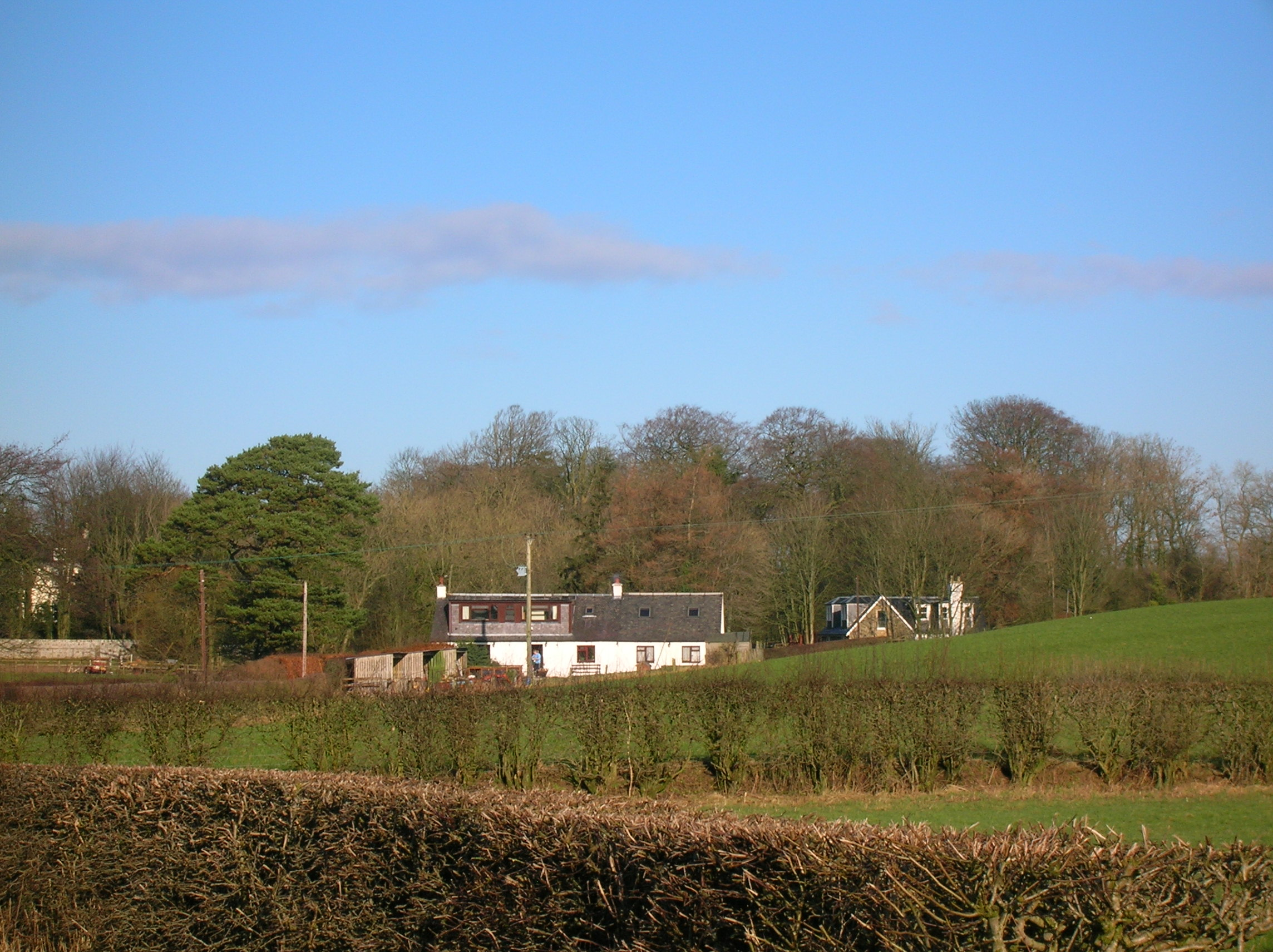 Crivoch Cottage in East Ayrshire near the Kennox Estate. 2007.